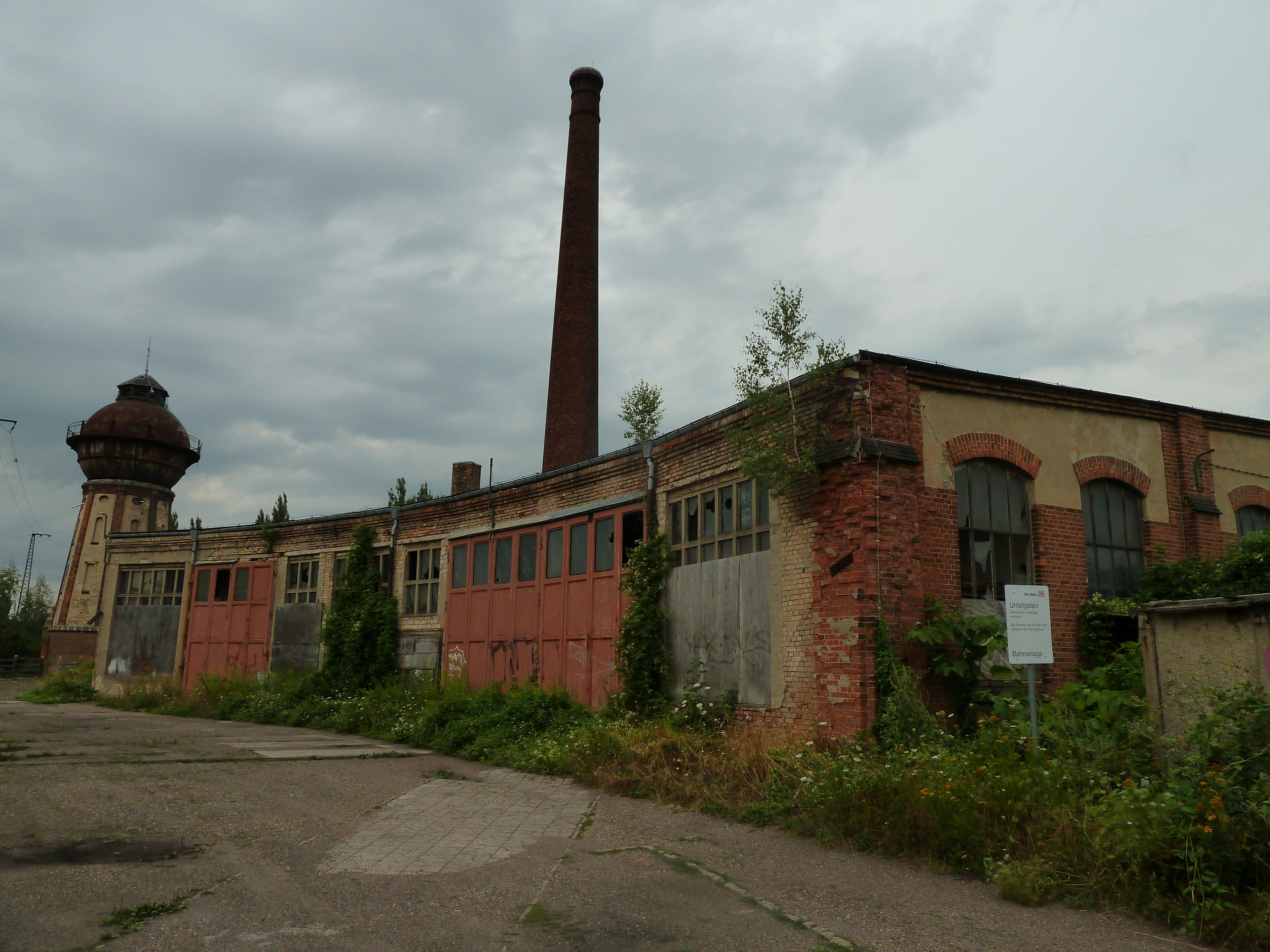 Locomotive shed and water tower in Köthen first third of 20th century,, cultural heritage